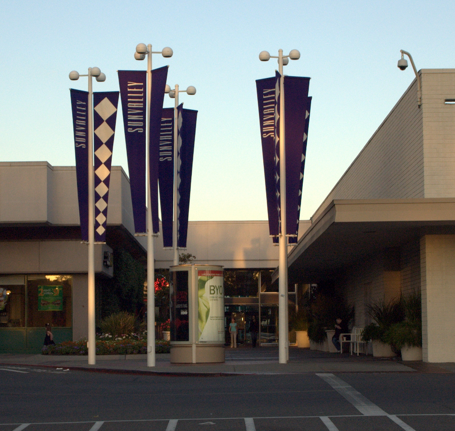 One of the Entrances on the West side of Sunvalley Mall. California, USA